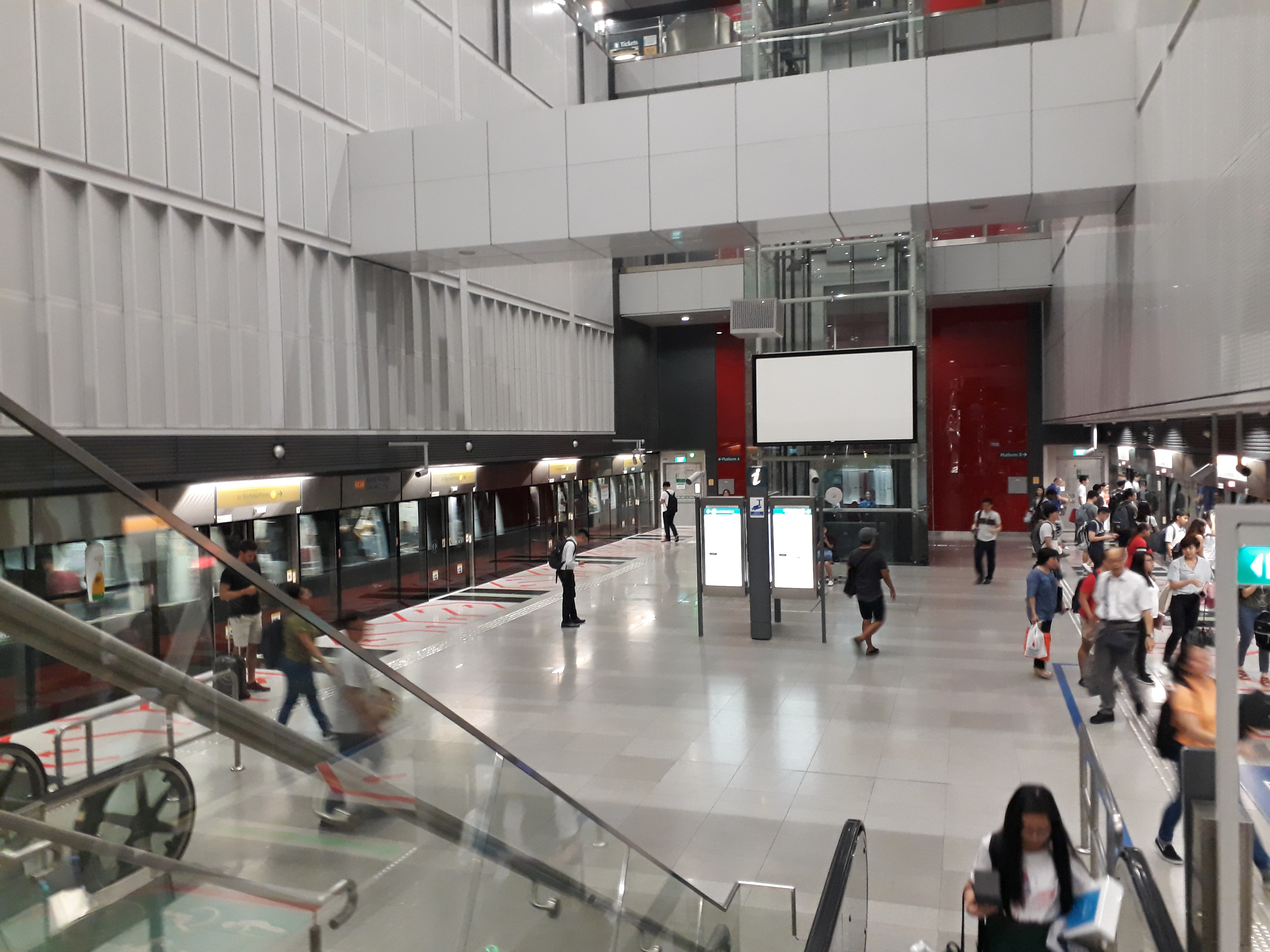 Kent Ridge